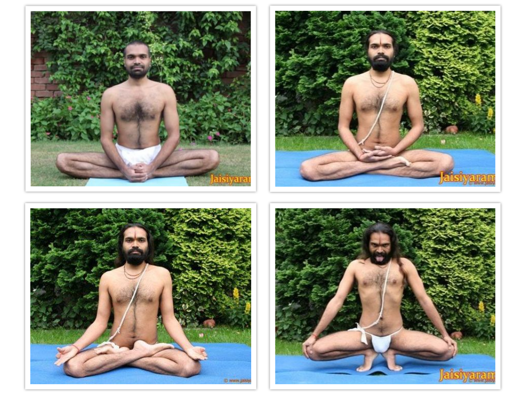 Yoga tattva upanishad - 4 chief asanas for Pranayama : Bhadrasana , Padmasana, Siddhasana, Simhasana